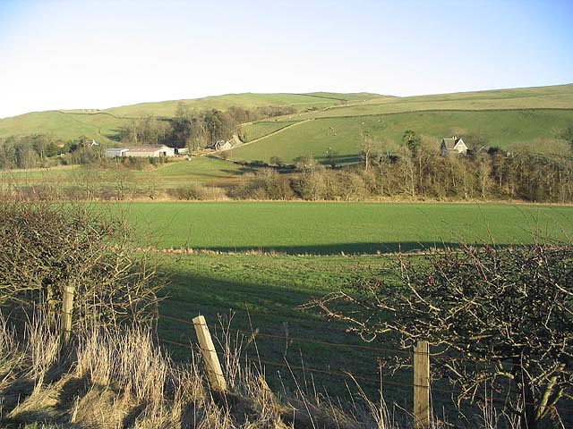 Farmland at Broadhaugh Viewed from the A7 with Broadhaugh Farm to the left and Broadhaugh Cottage on the right.